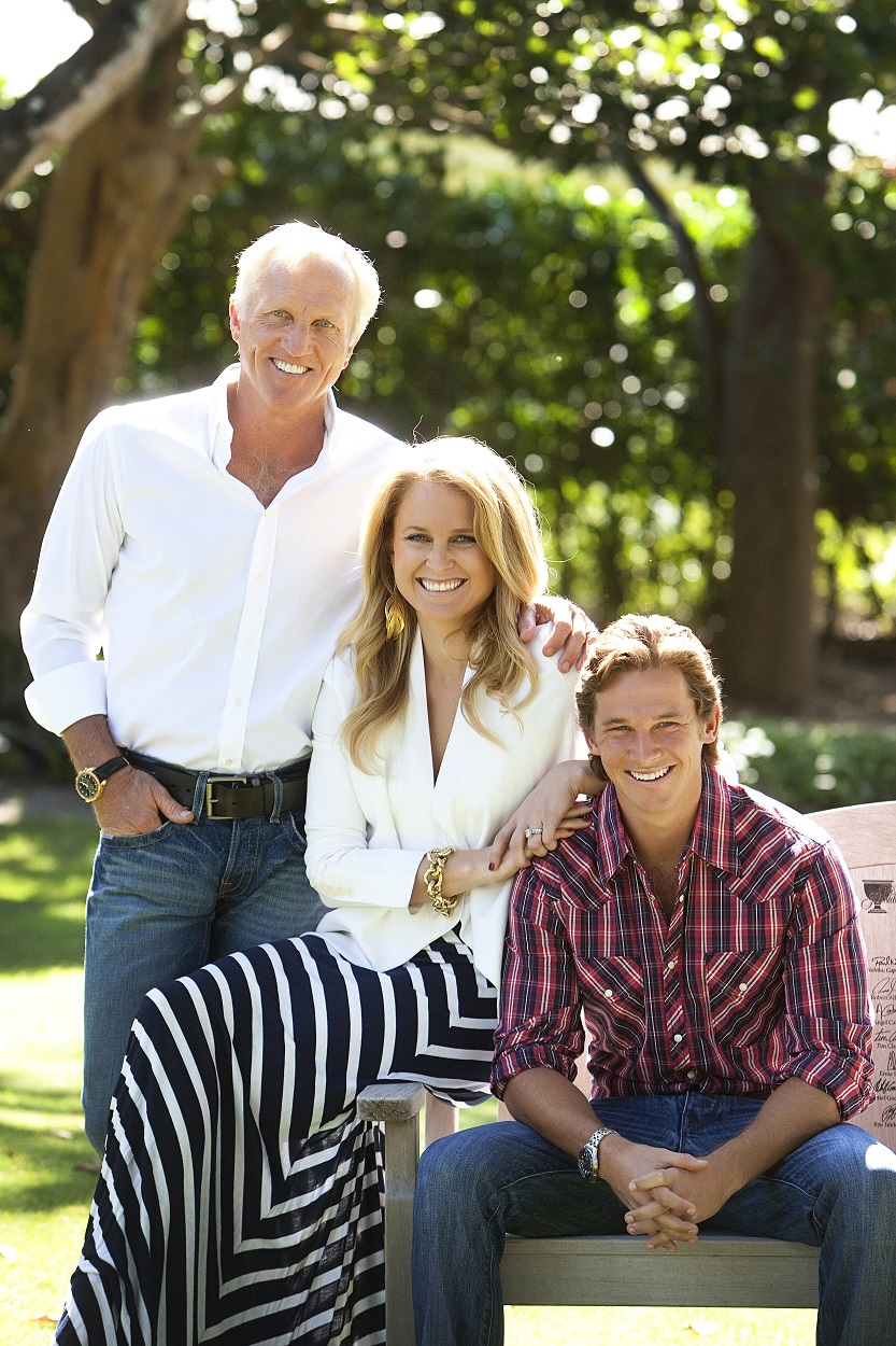 Norman with daughter Morgan Leigh and son Gregory in 2014.